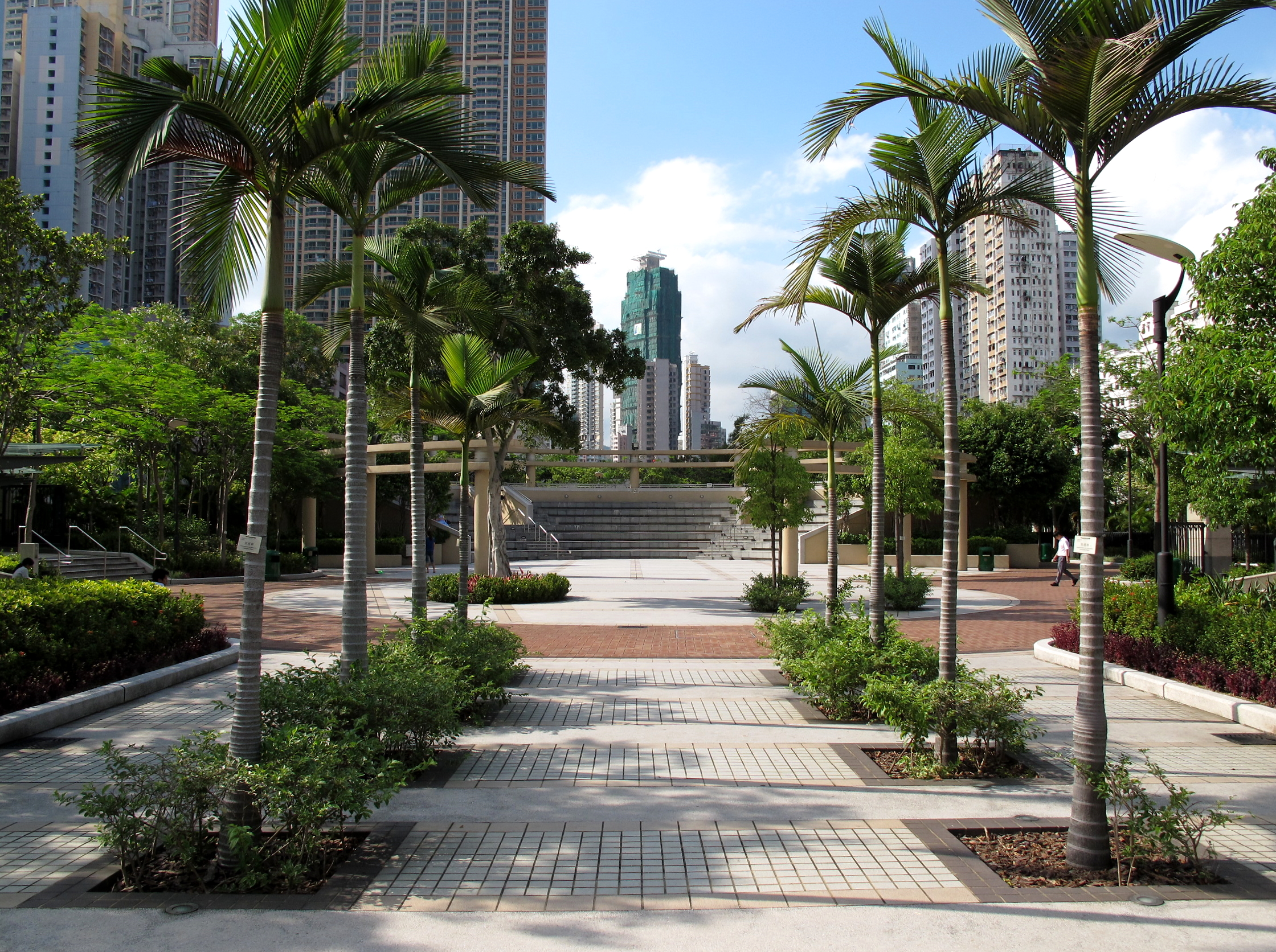 Cherry Street Park